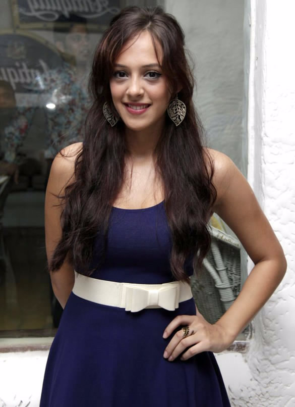 Hazel Keech at the launch of 'Dongri To Dubai' book